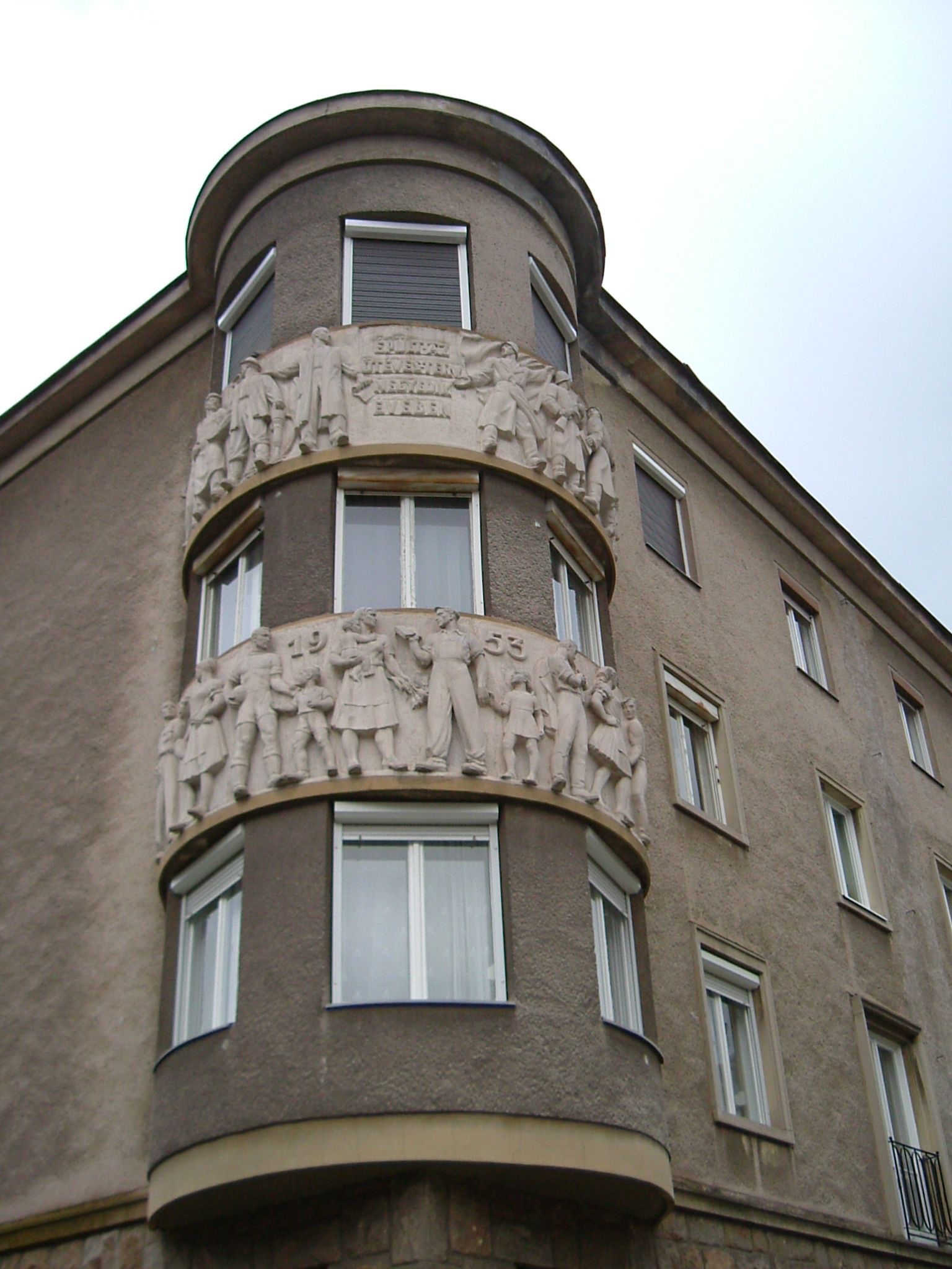 Dunaújváros socreal relief. Architects: Attila Till and Ferenc Kóbor - No.2, Bocskai St., Dunaújváros Hungary